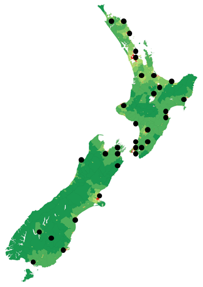 This is a map of New Zealand population density, and the location of Radio Live frequencies.